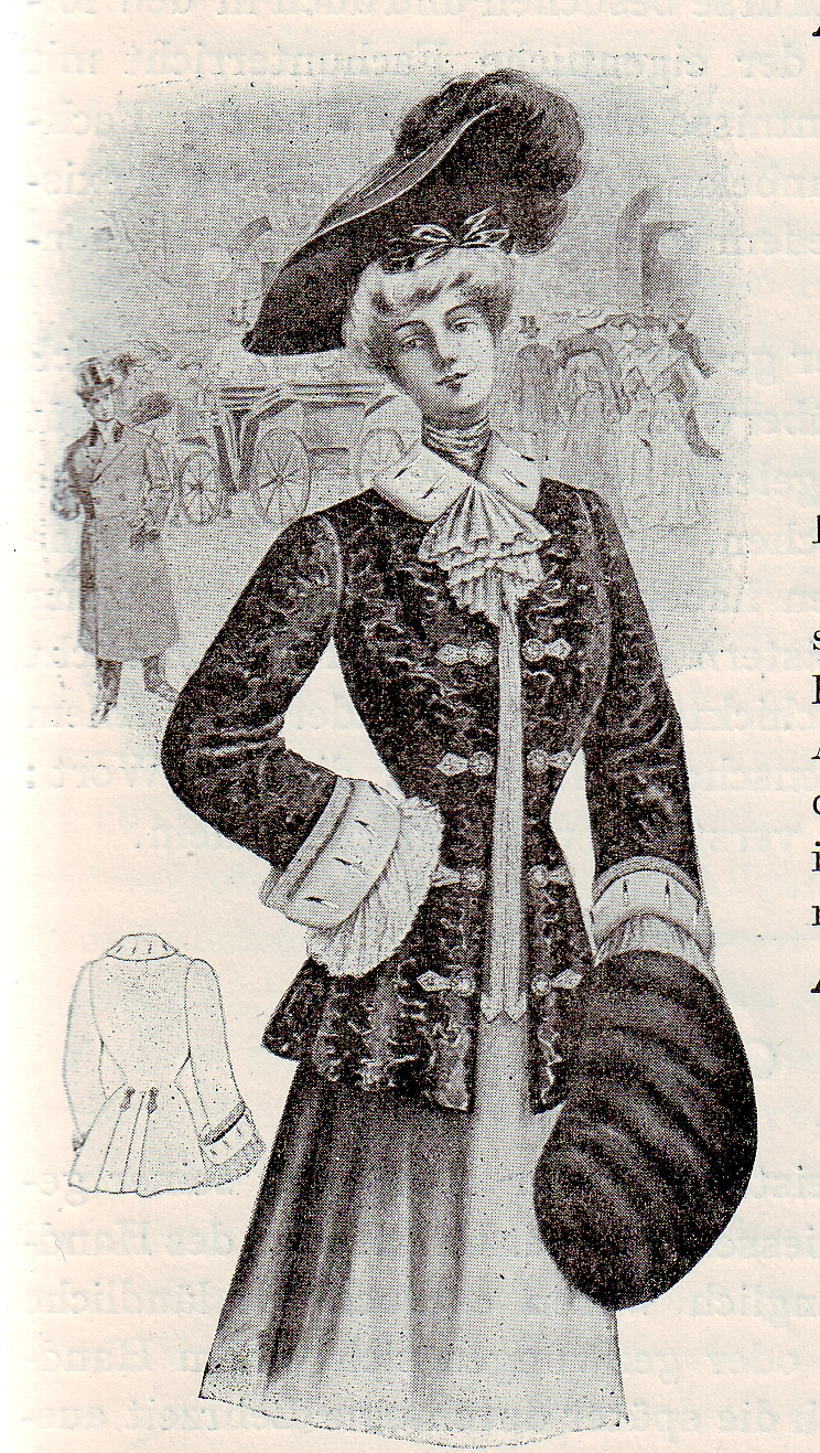 Out of American Album of Fur Novélities (c. 1904)